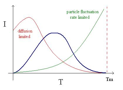 Nucleation rate as a function of temperature